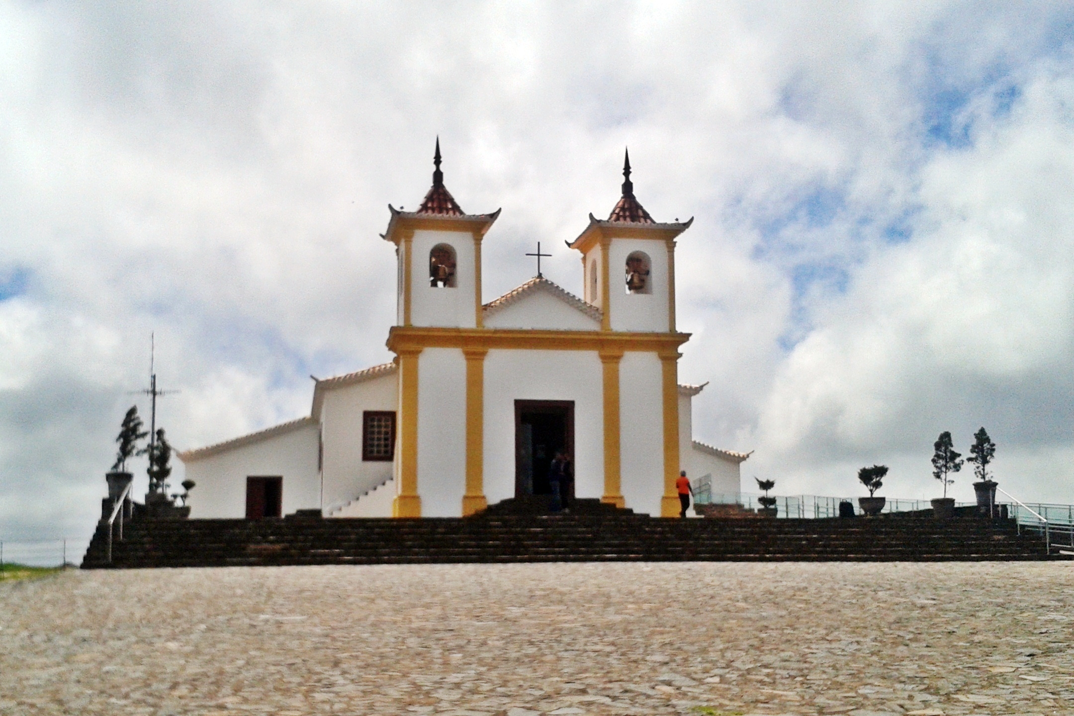 Front of the Our Lady of Piety Chapel, in Caeté, Minas Gerais, Brazil.